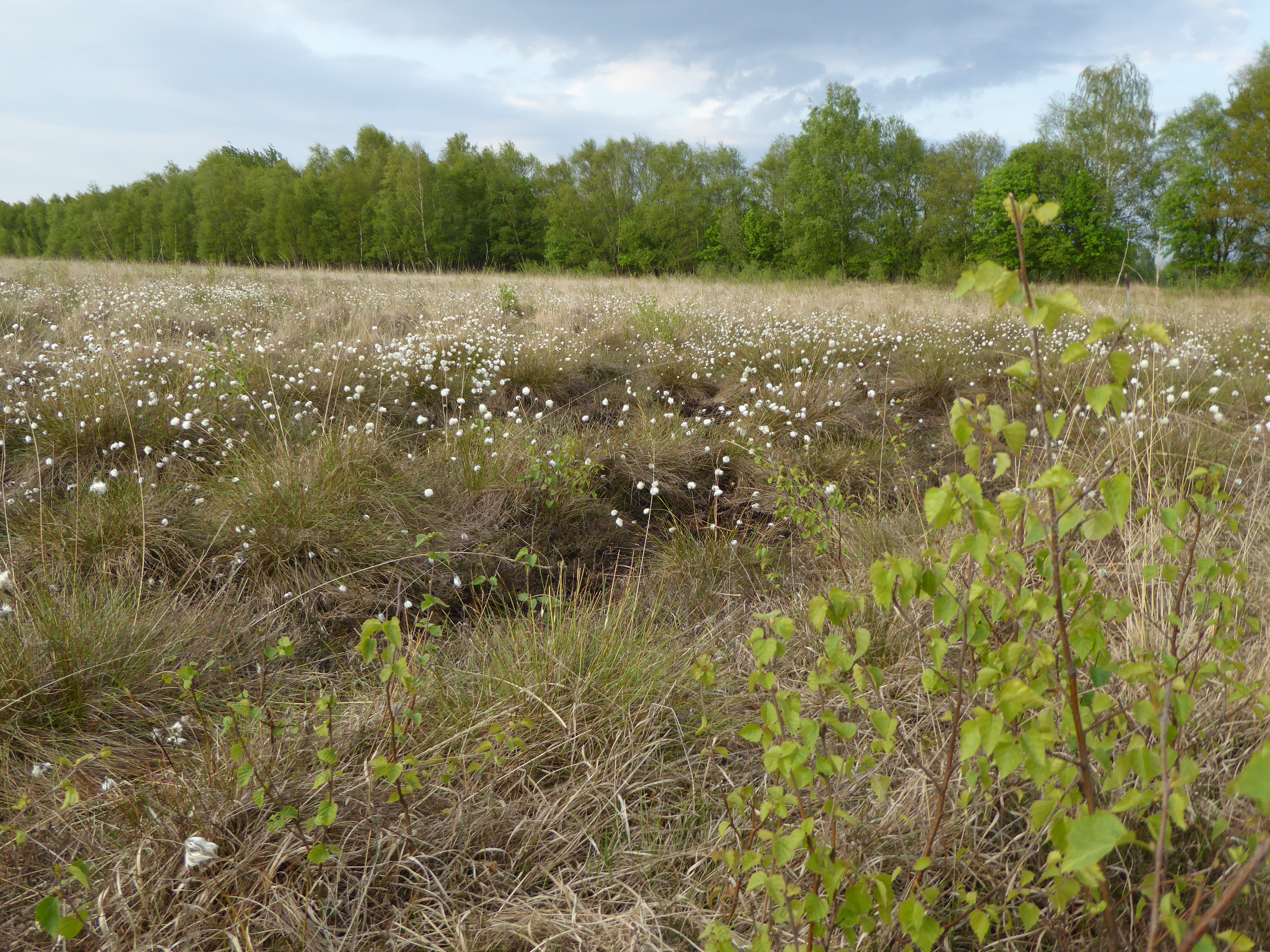 Landscape with cotton grass at the "Freistätter-Moor" (the southern part of the "Wietingsmoor") in Lower Saxony, Germany; 11.05.2017; 18:54; Image-ID: p1180465